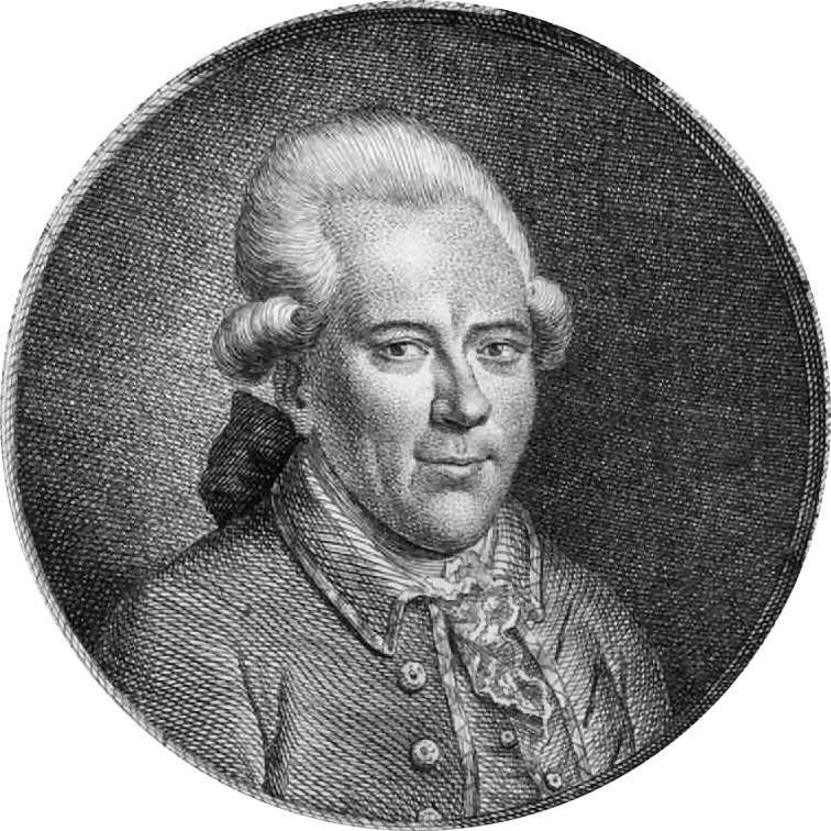 Portrait of Georg Christoph Lichtenberg (1742-1799), German scientist and writer